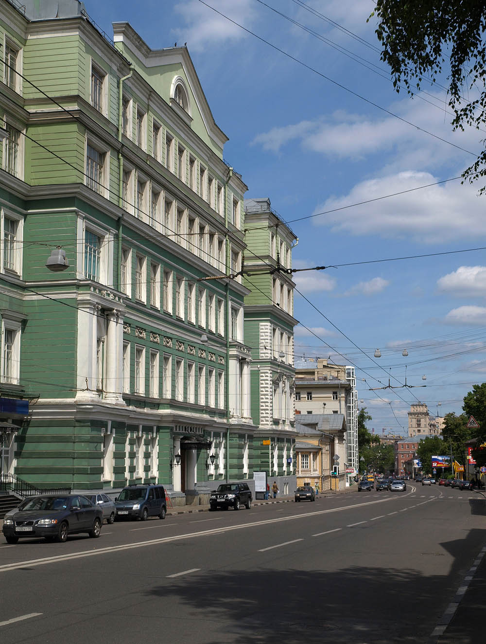 Moscow State ecology college, Staraya Basmannaya 21/4.